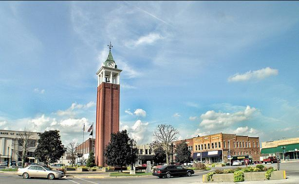 Marion, Illinois